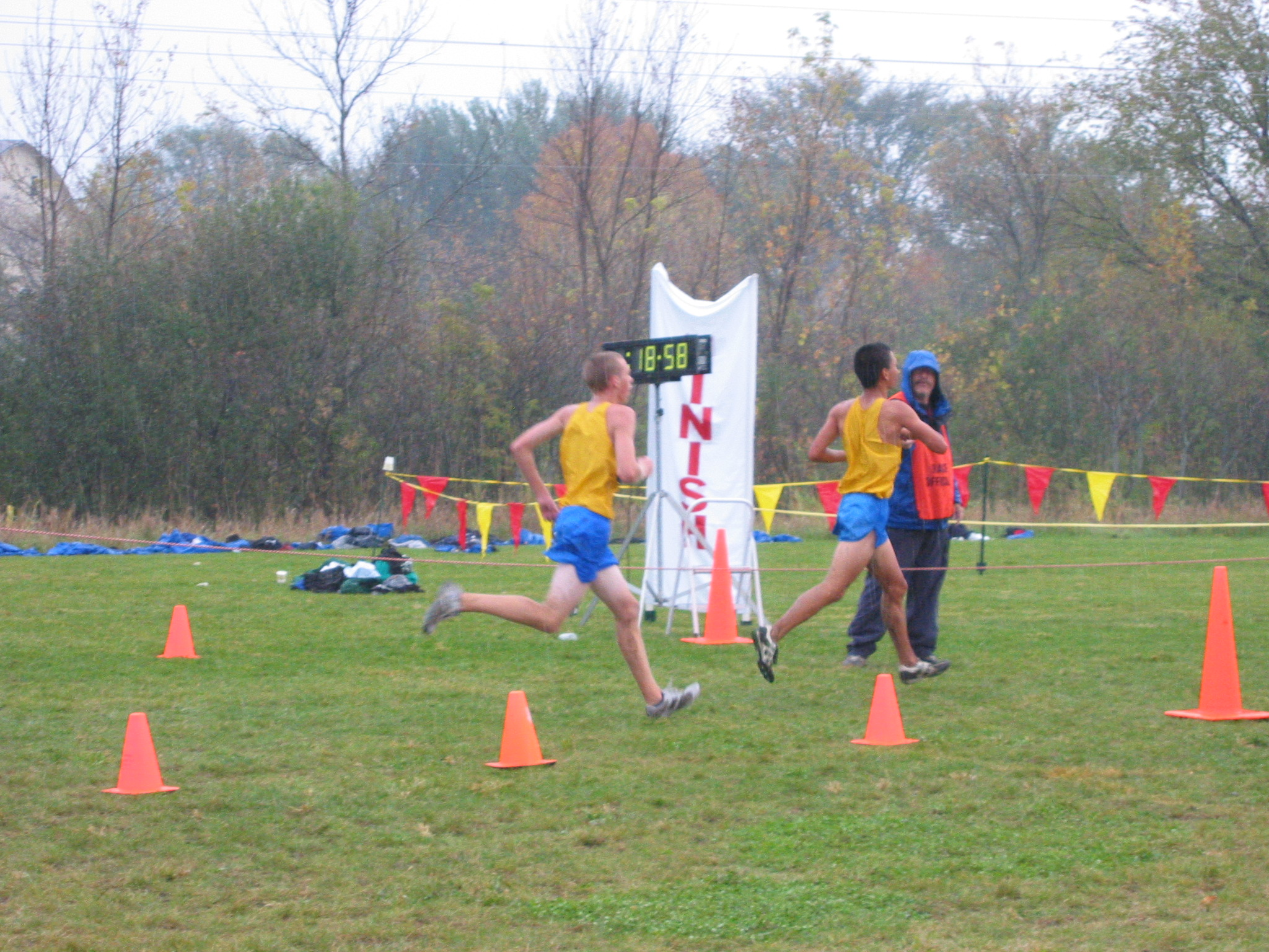 Two runners finishing in the 2005 Classic Lake Conference Championship meet in Minnesota.